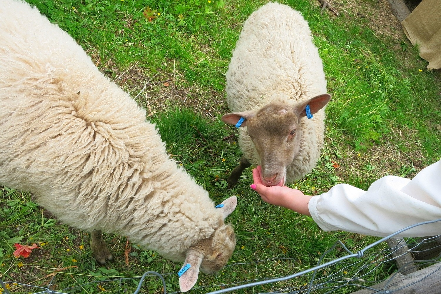 The feeding of museum sheep Pekka and Taku (with special forage granules) belongs to the guided tour in Sodankylä Museum of Local History and Culture. (Lapland, Finland)